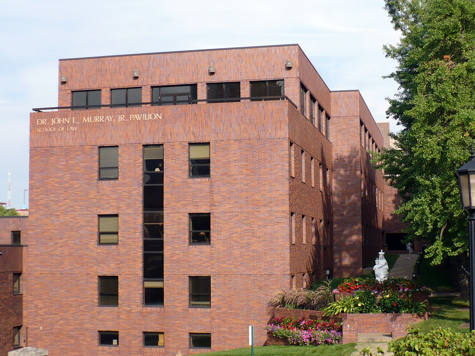 Duquesne University's School of Law building.